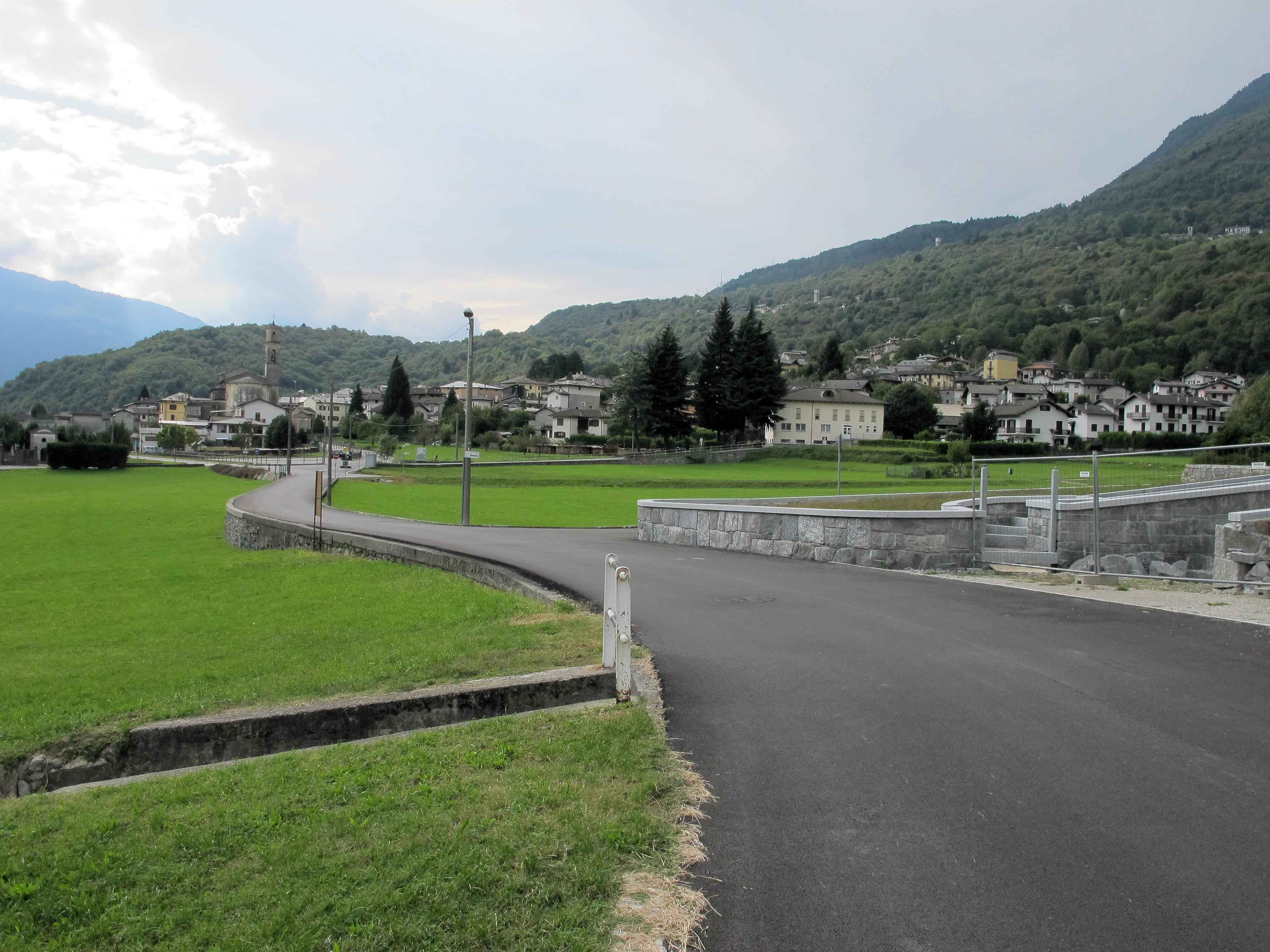 Italy, Lombardy, Dazio